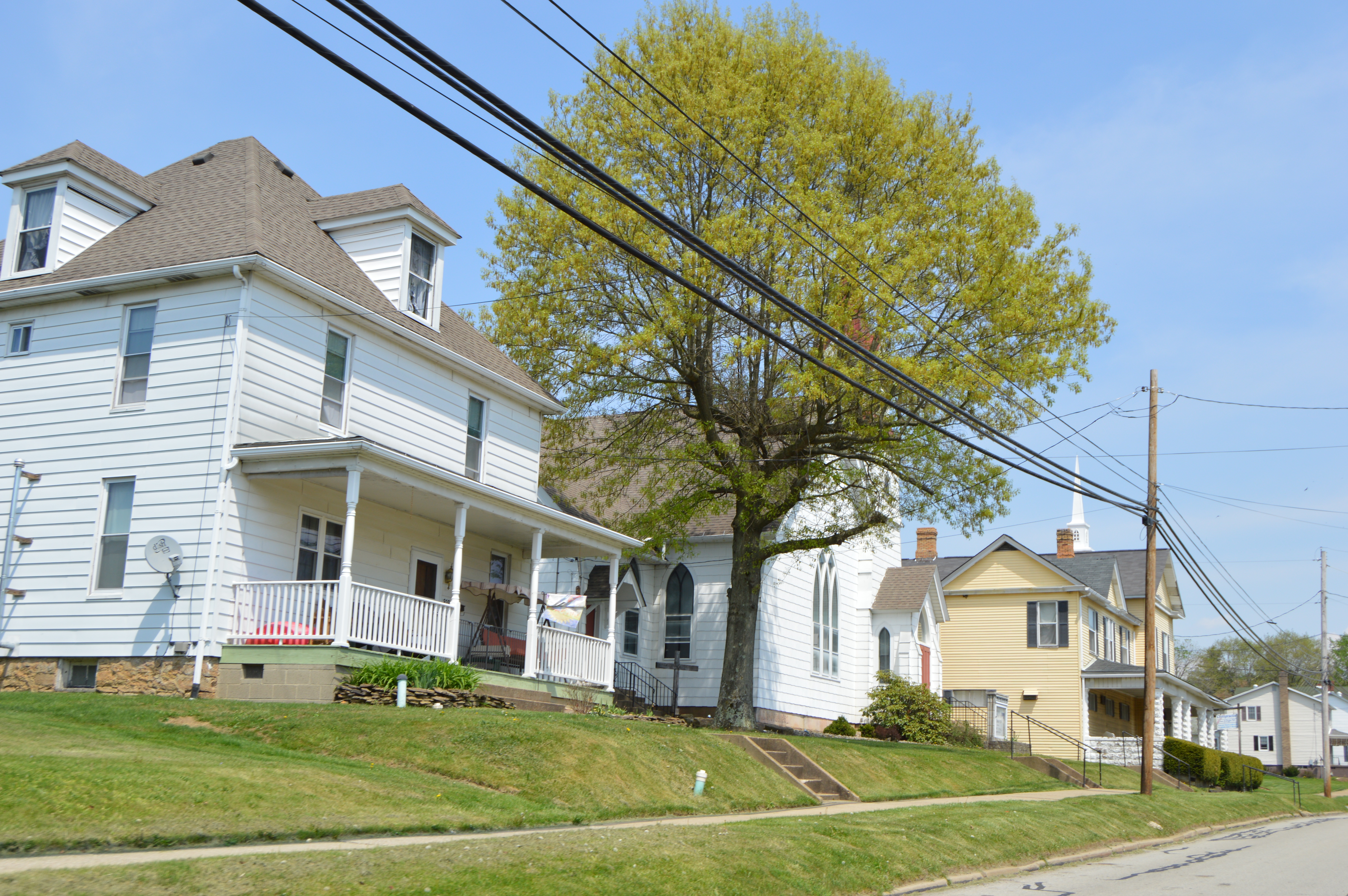 Looking eastward from the Peach Street intersection along Main Street in Rural Valley, Pennsylvania, United States. The Methodist church is near the center of the picture, while the Presbyterian church tower can be seen at right.